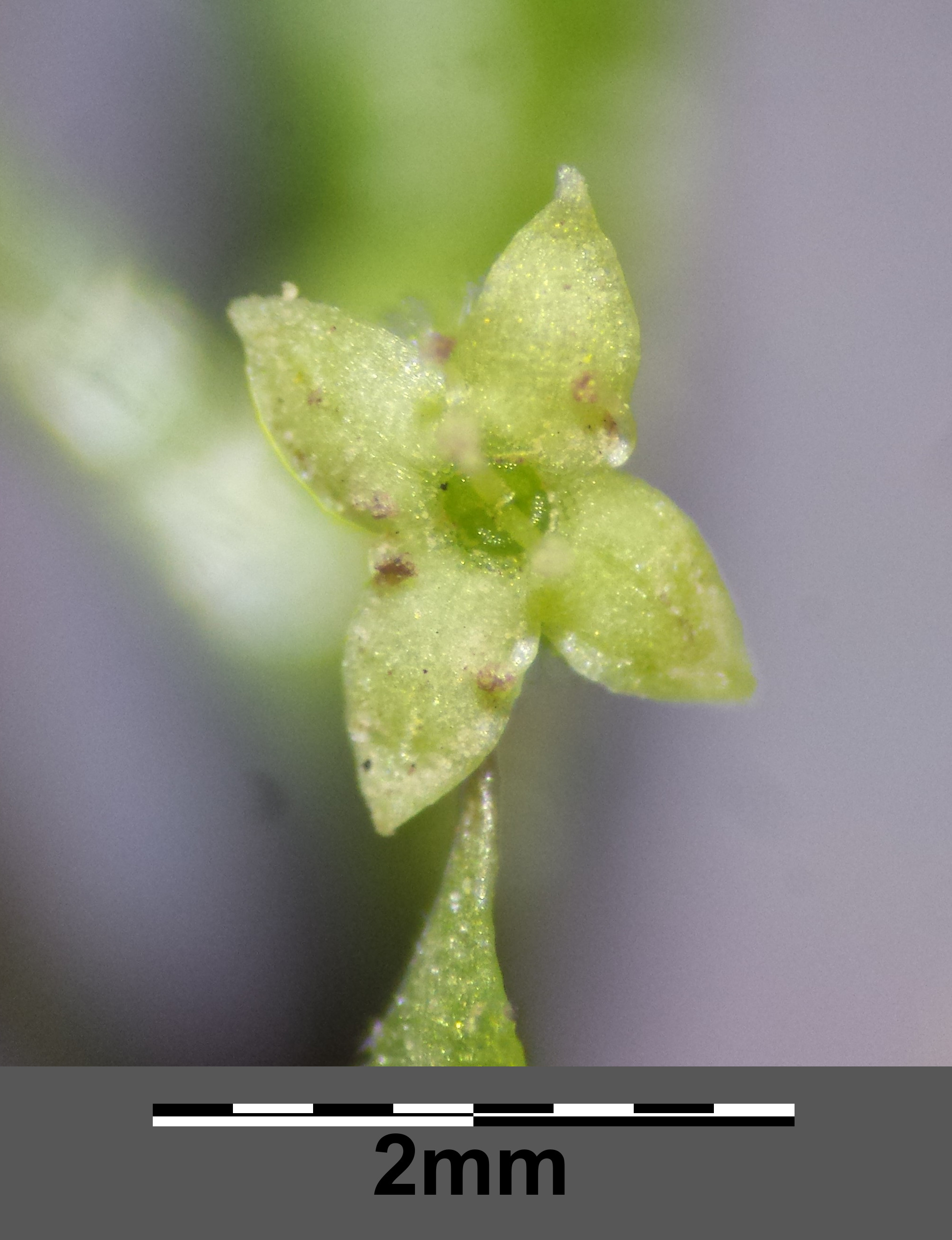 Flower Taxonym: Galium spurium var. echinospermum ss Fischer et al. EfÖLS 2008 ISBN 978-3-85474-187-9 Location: pond near Michelstetten, district Mistelbach, Lower Austria - ca. 250 m a.s.l. Habitat: shore of a pond